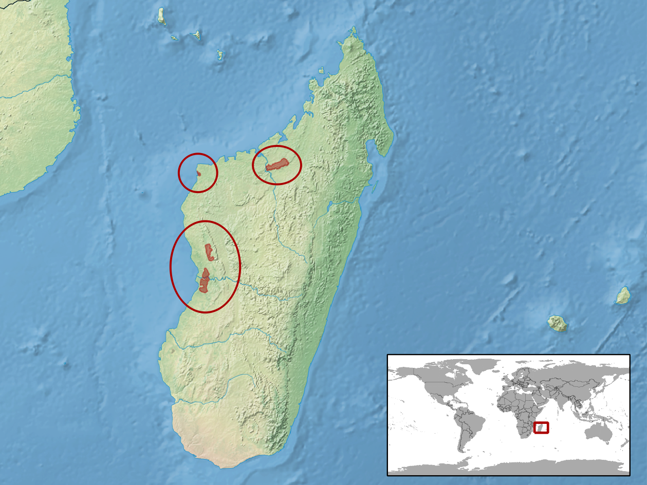 geographic distribution of Uroplatus guentheri (Native: Madagascar)